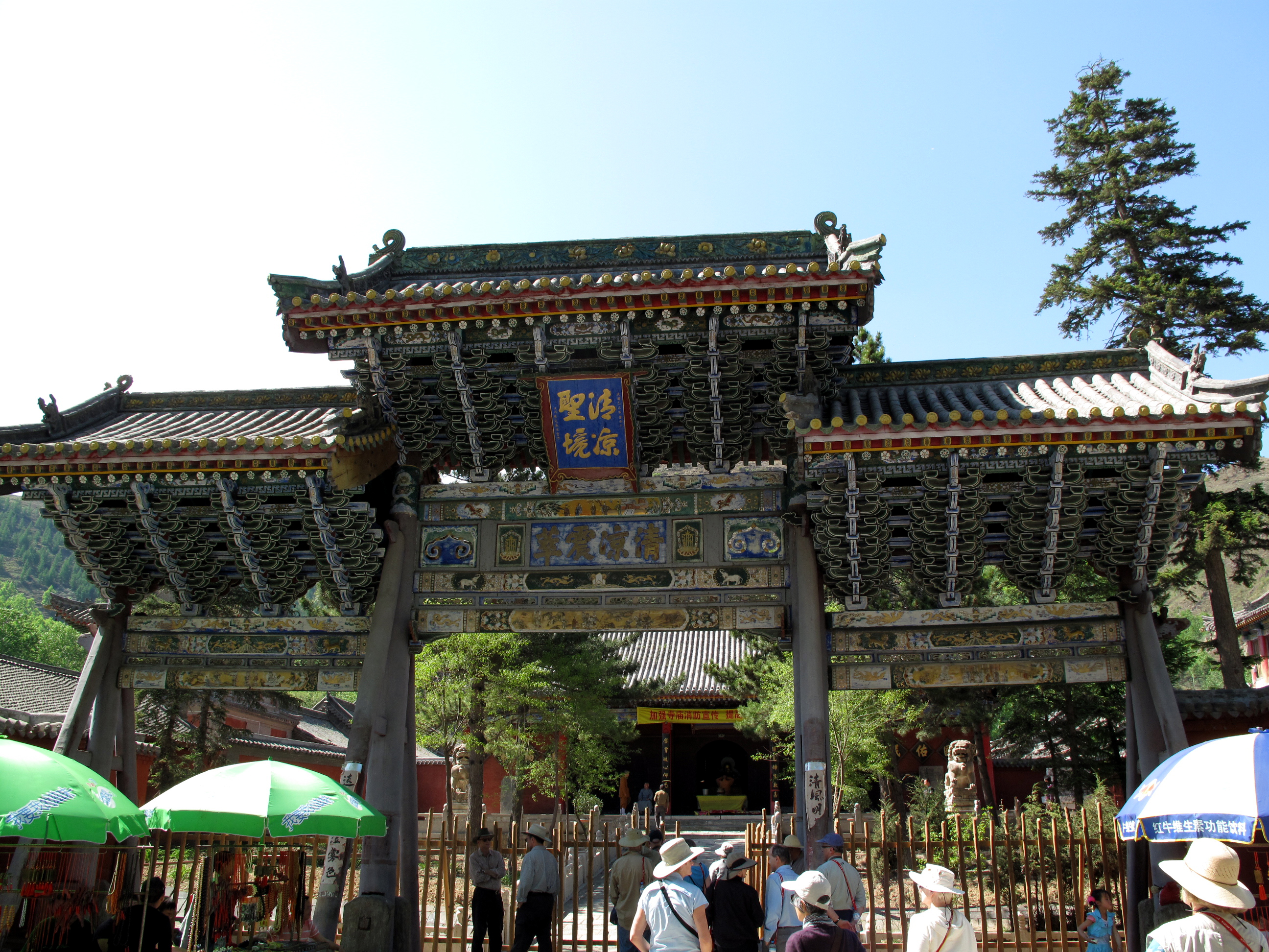 Bishan Si (temple) on Wutai Shan. Shown here is the temple's pailou, with a 4-character inscription and elaborate dougong. The first temple, to occupy the spot where Bishan Temple is now located, was founded by Emperor Xiaowen (471-499 AD) of the Northern Wei dynasty. It was rebuilt as a Chan (Zen) temple in 1486, and then in 1698 as Bishan Si under the sponsorship of Kangxi. The temple retains its Chan affiliation to the present day.